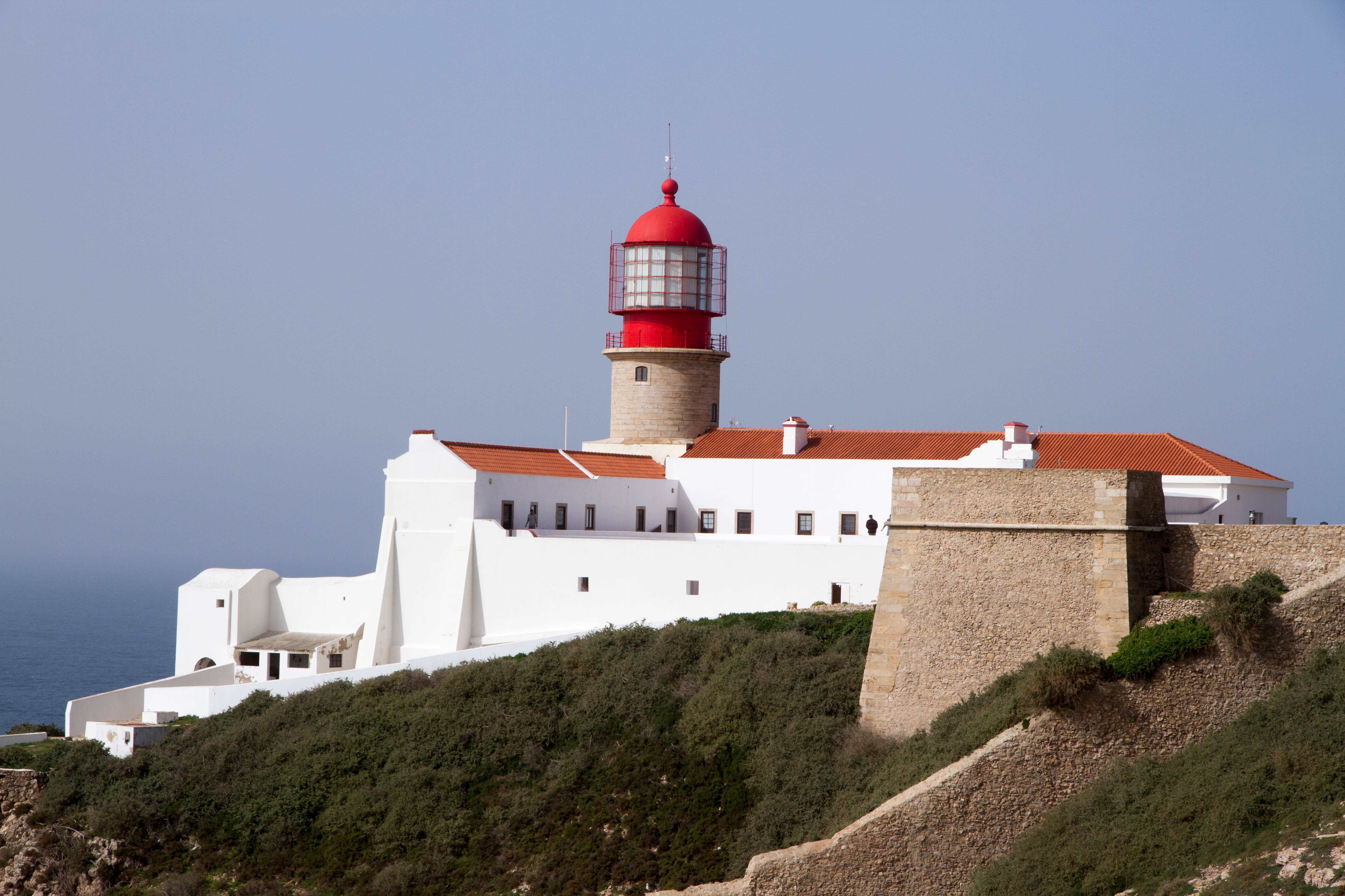 The making of this document was supported by the Community-Budget of Wikimedia Germany. Cabo de São Vicente Lighthouse